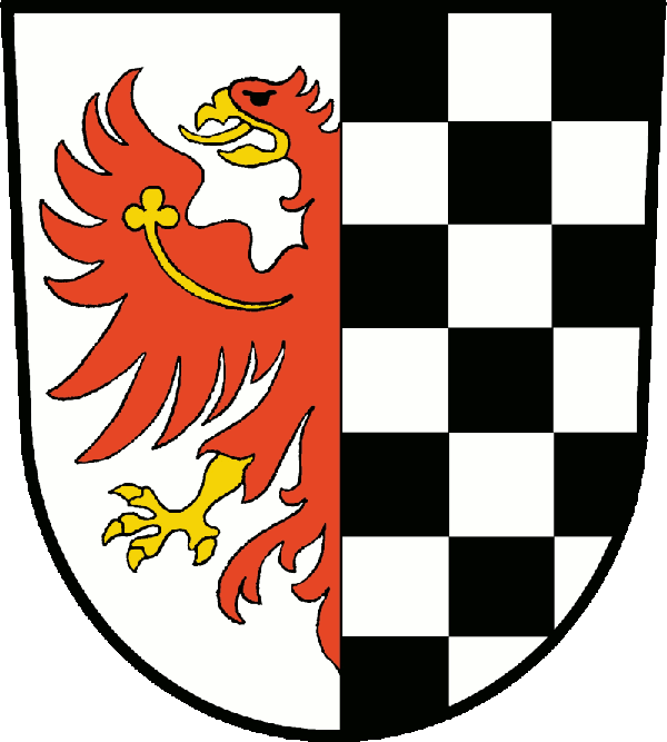 Coat of arms of Mark Landin